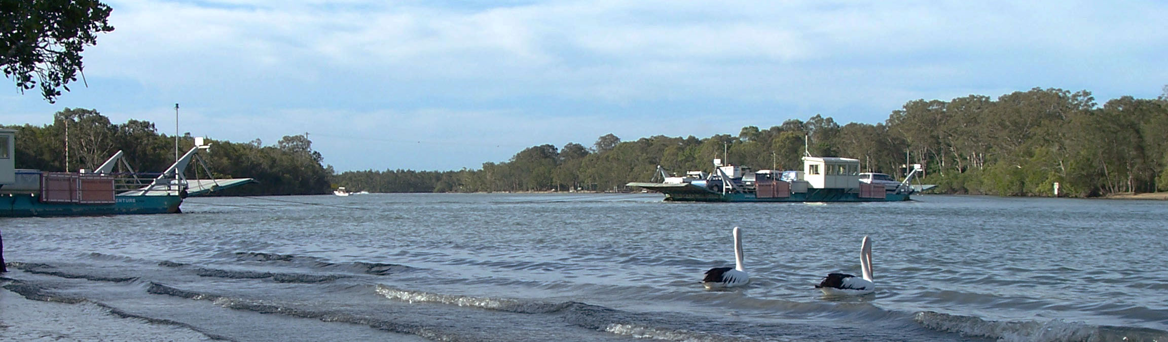 Taken Dec 23, 2006, brightened by Zephyr103 07:15, 23 December 2006 (UTC)